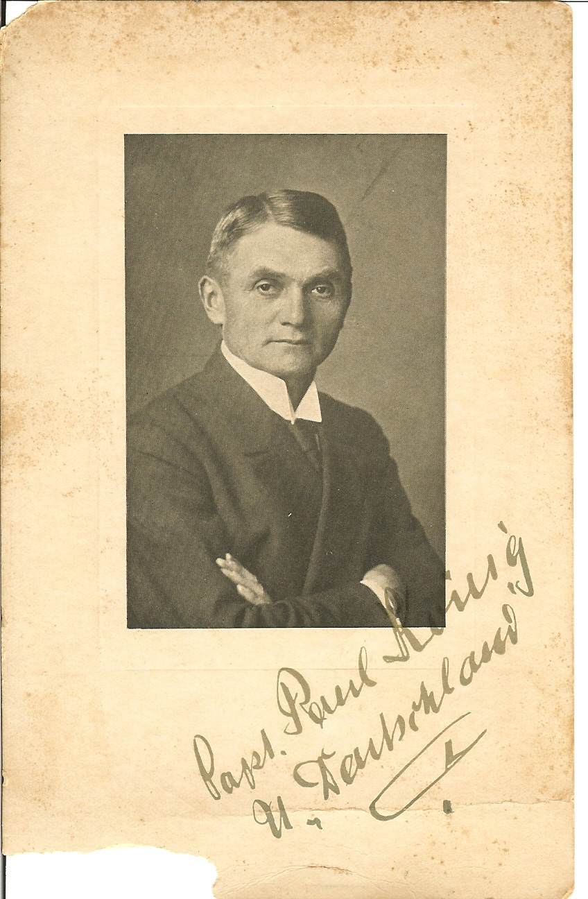 Autographed portrait postcard of Captain Paul König of the German merchant submarine U Deutschland, probably handed out in Baltimore, MD, in 1916